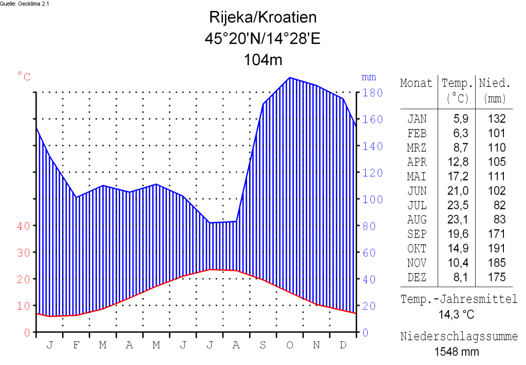 climate chart in the format by Walter and Lieth, metric, °Celsisus and millimeters, made with Geoklima 2.1